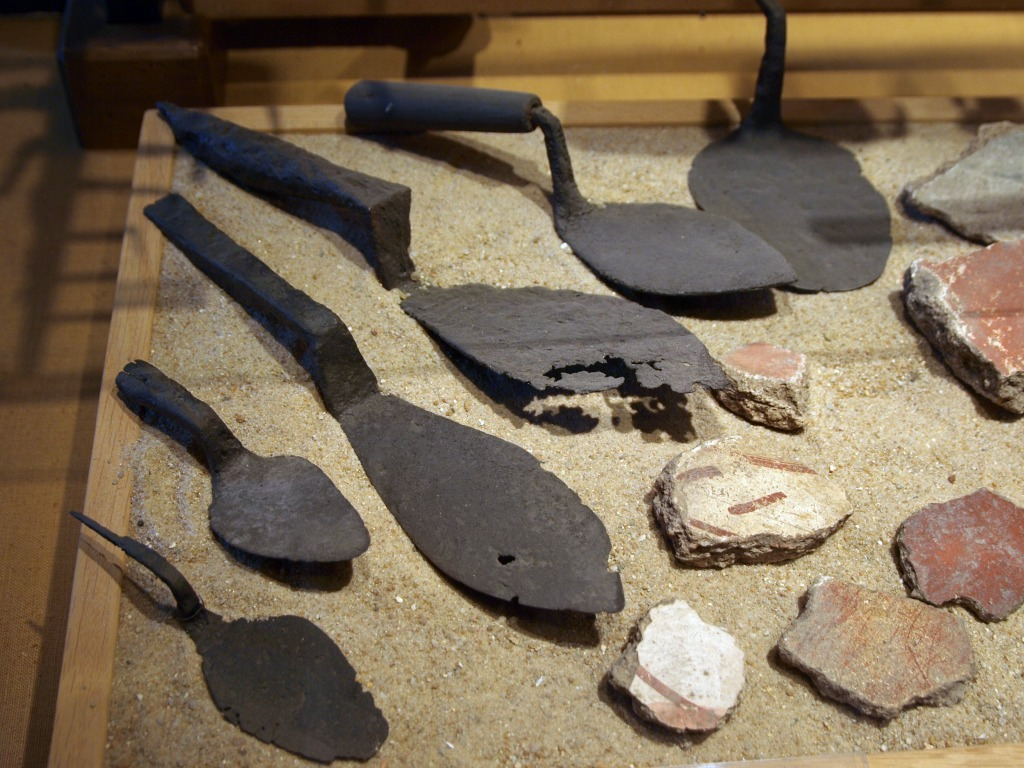 Roman brick trowels found at the Saalburg Germany, 1st to 3rd century AD